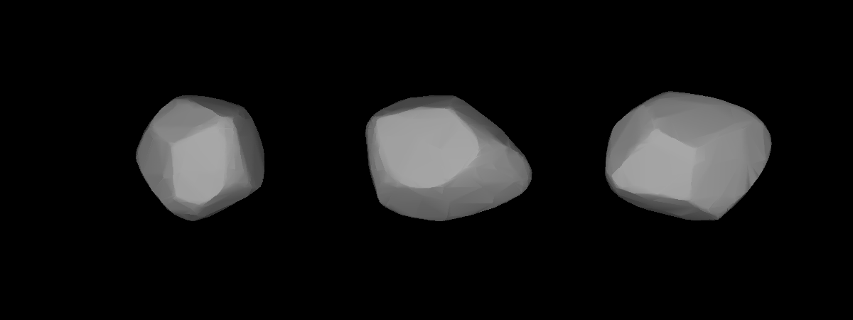 A three-dimensional model of 351 Yrsa that was computed using light curve inversion techniques.